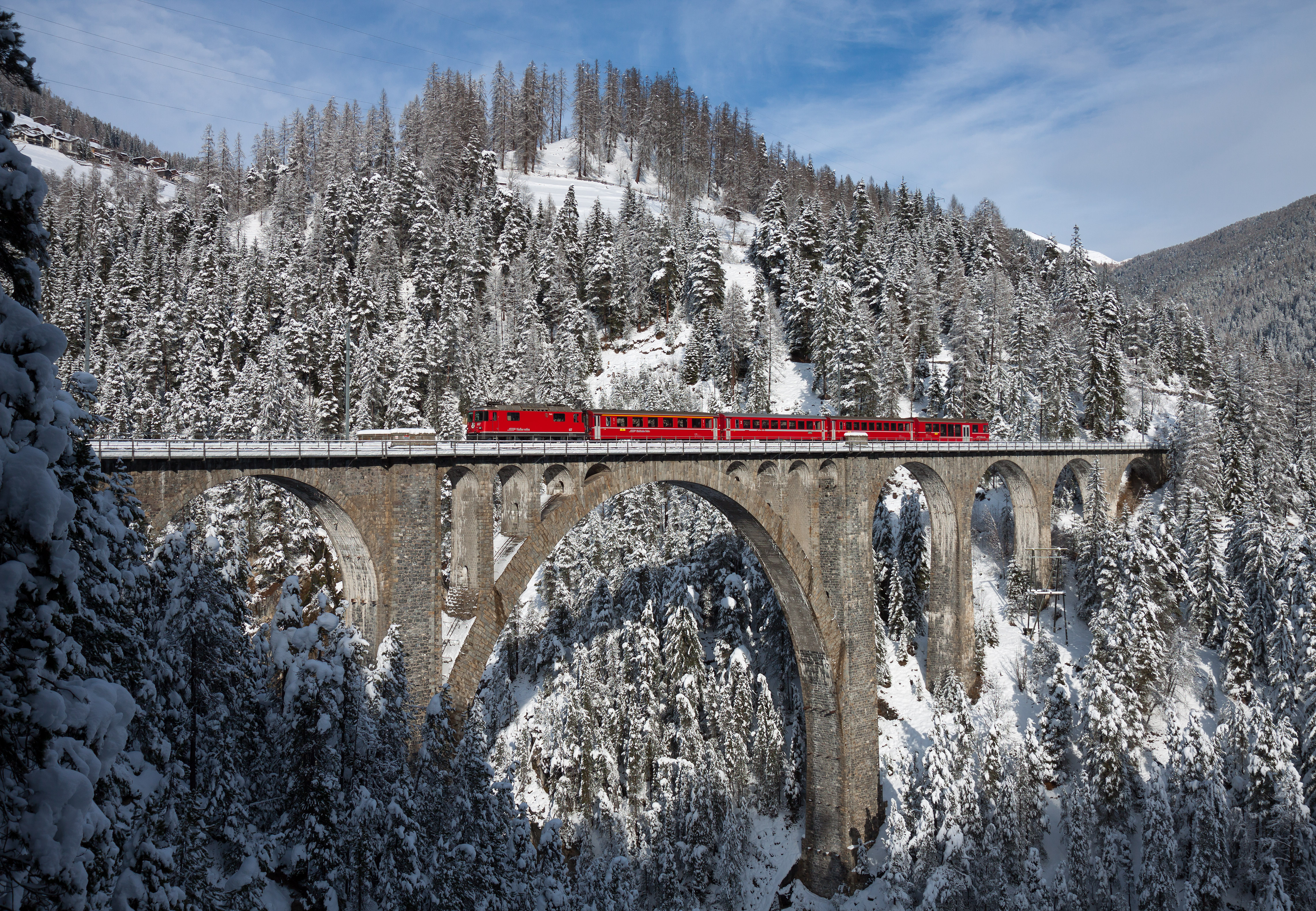 A RhB Ge 4/4 II with a push–pull train crosses the Wiesen Viaduct between Wiesen and Filisur, Switzerland.